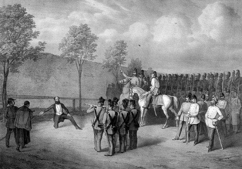 Exection of Batthyány